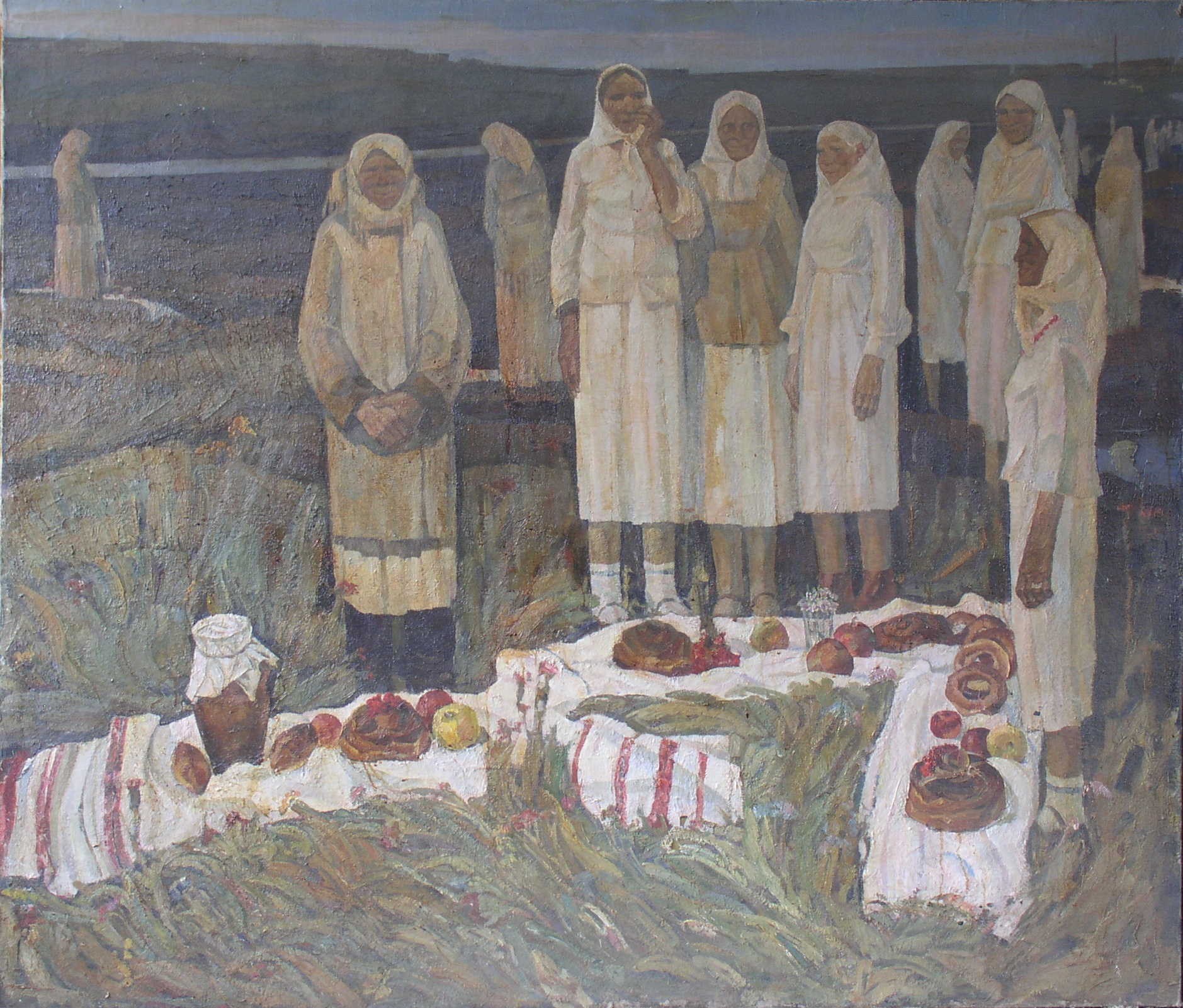 Chornyi Mykhaylo. Remembrance Day at the Battle field. 1985. - oil, canvas. - 150x200 cm.